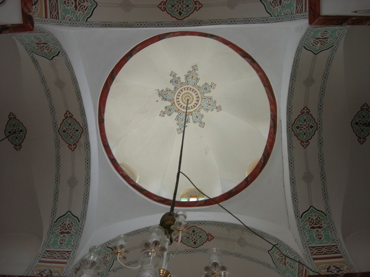 The Dome of the former Church of the Myrelaion( today mosque of Bodrum) in Istanbul